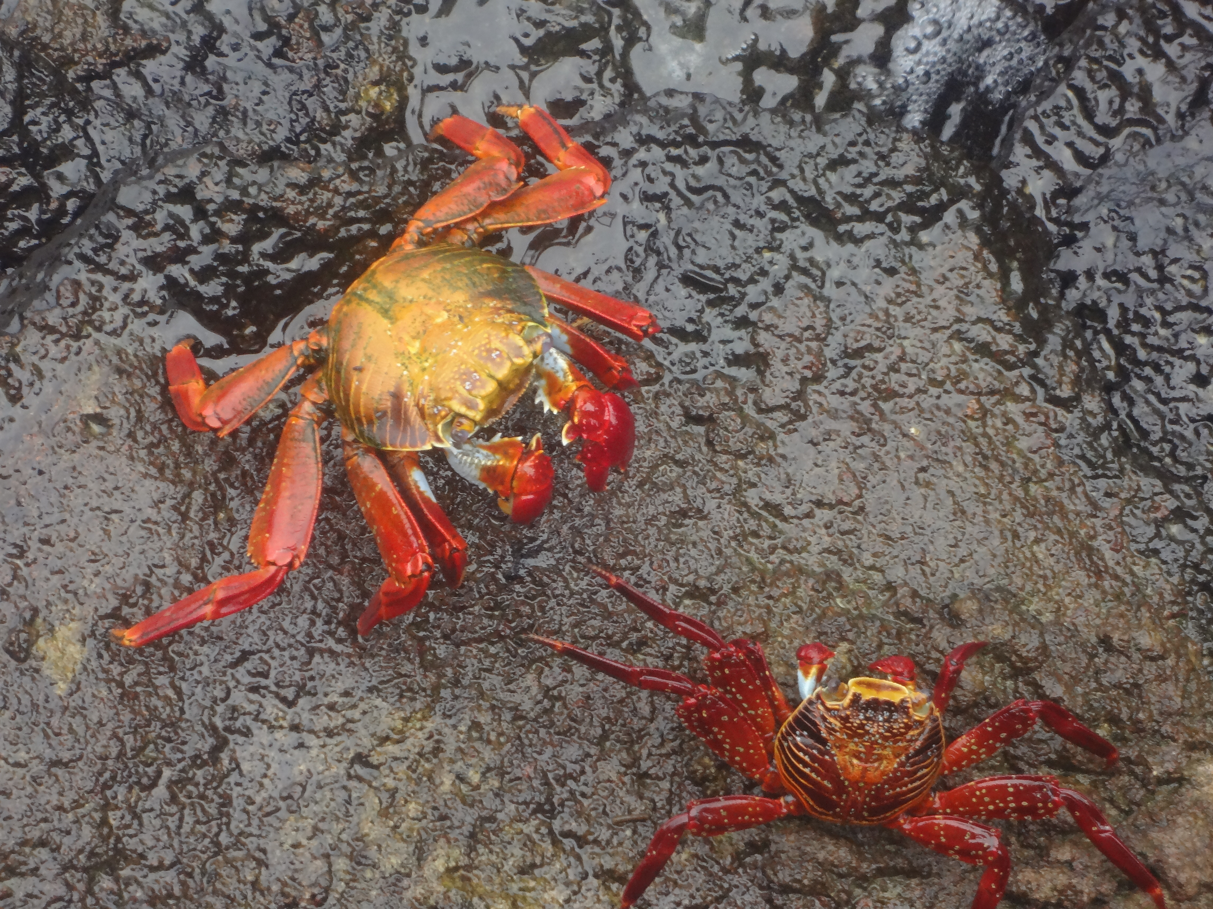 (Grapsus grapsus) Puerto Ayora Galápagos Islands Photography by David Adam Kess